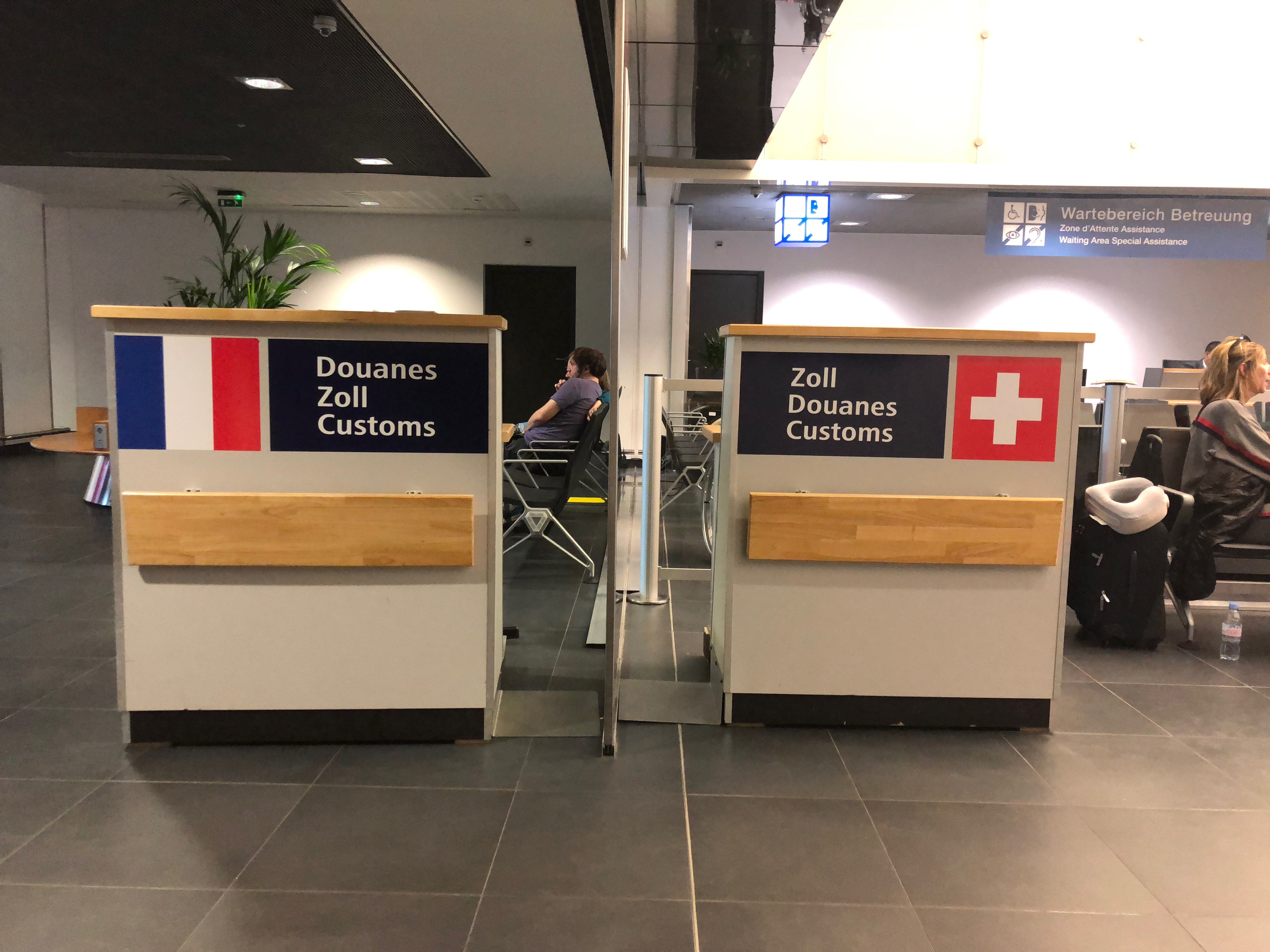 French-Swiss customs barrier in Europort (Basel-Mulhouse-Freiburg), 2018